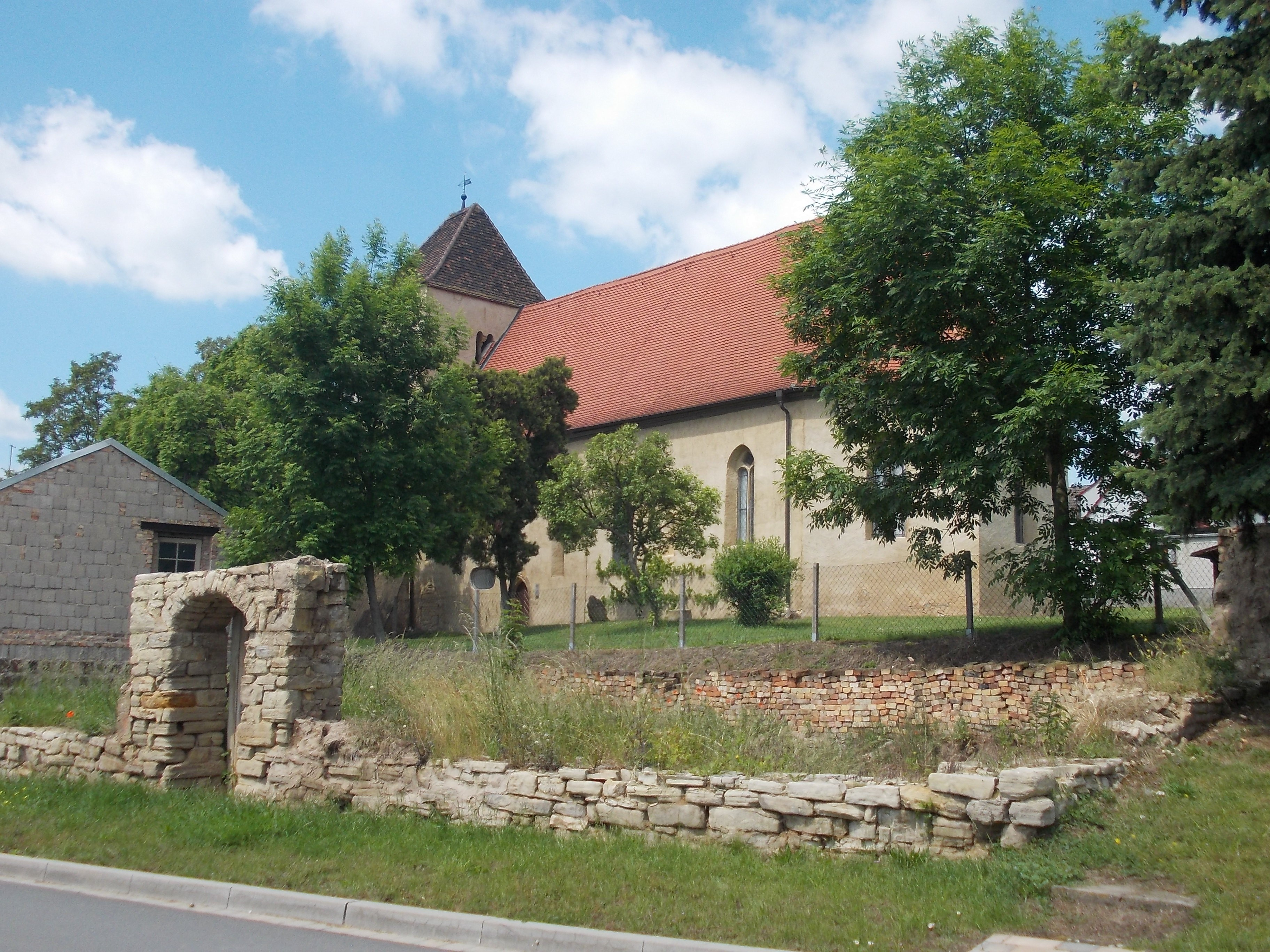 St. Peter's Church in Esperstedt (Obhausen, district: Saalekreis, Saxony-Anhalt)